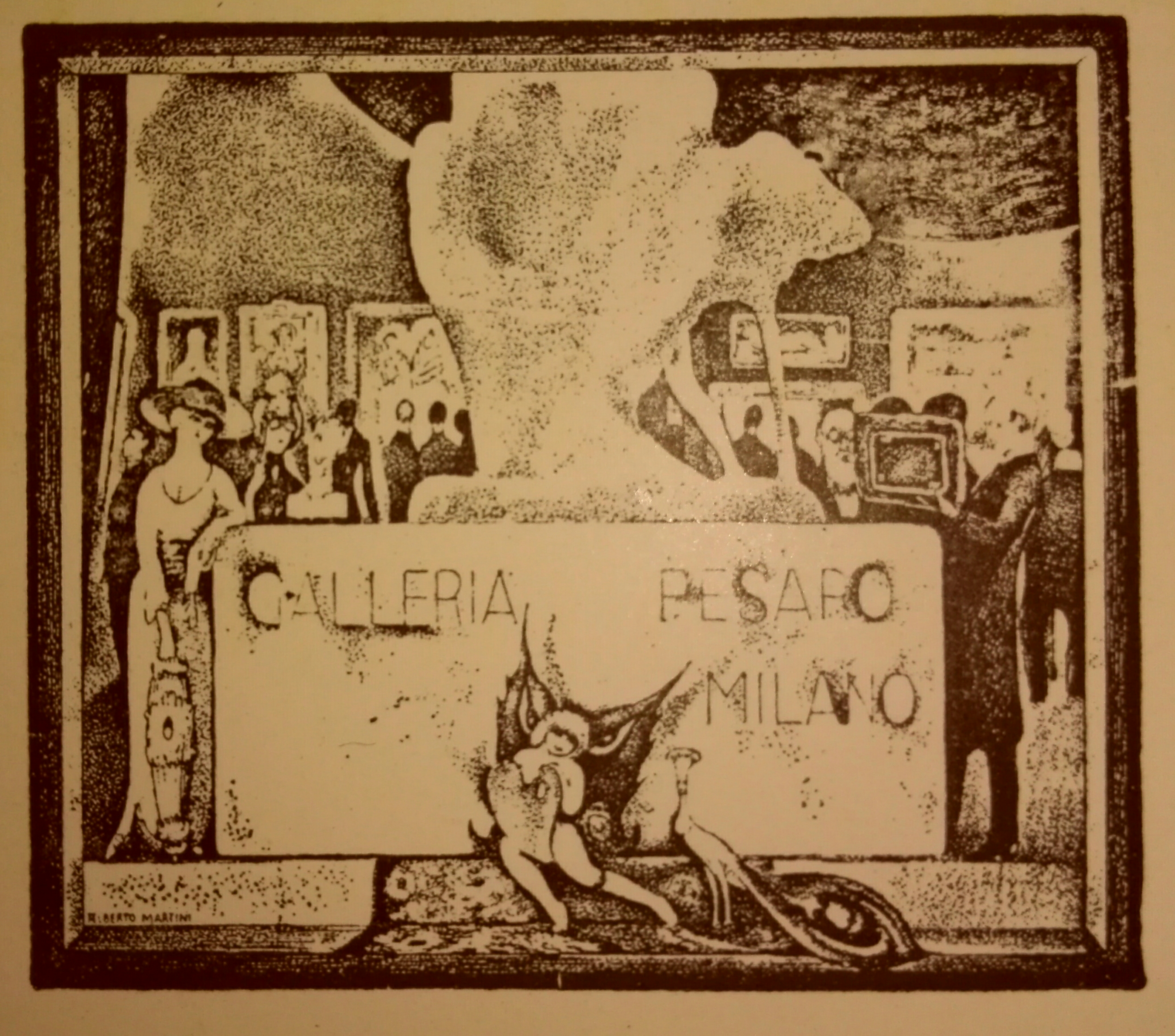 Galleria Pesaro - Milano, by Alberto Martini, from the catalog of the Sartorio exhibition, 1929